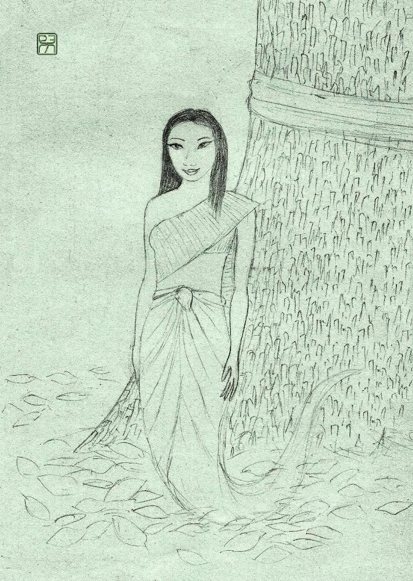 Pencil drawing of Nang Ta-khian